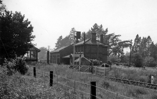 Bealings Station (closed). View westwards, towards Ipswich and London; London - Ipswich - Yarmouth main line. Station closed to passengers 17/9/56, to Goods 17/4/65.